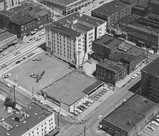 Aerial of International District, Seattle, Washington, 1969. Item 77924, Forward Thrust Photographs (Record Series 5804-04), Seattle Municipal Archives.